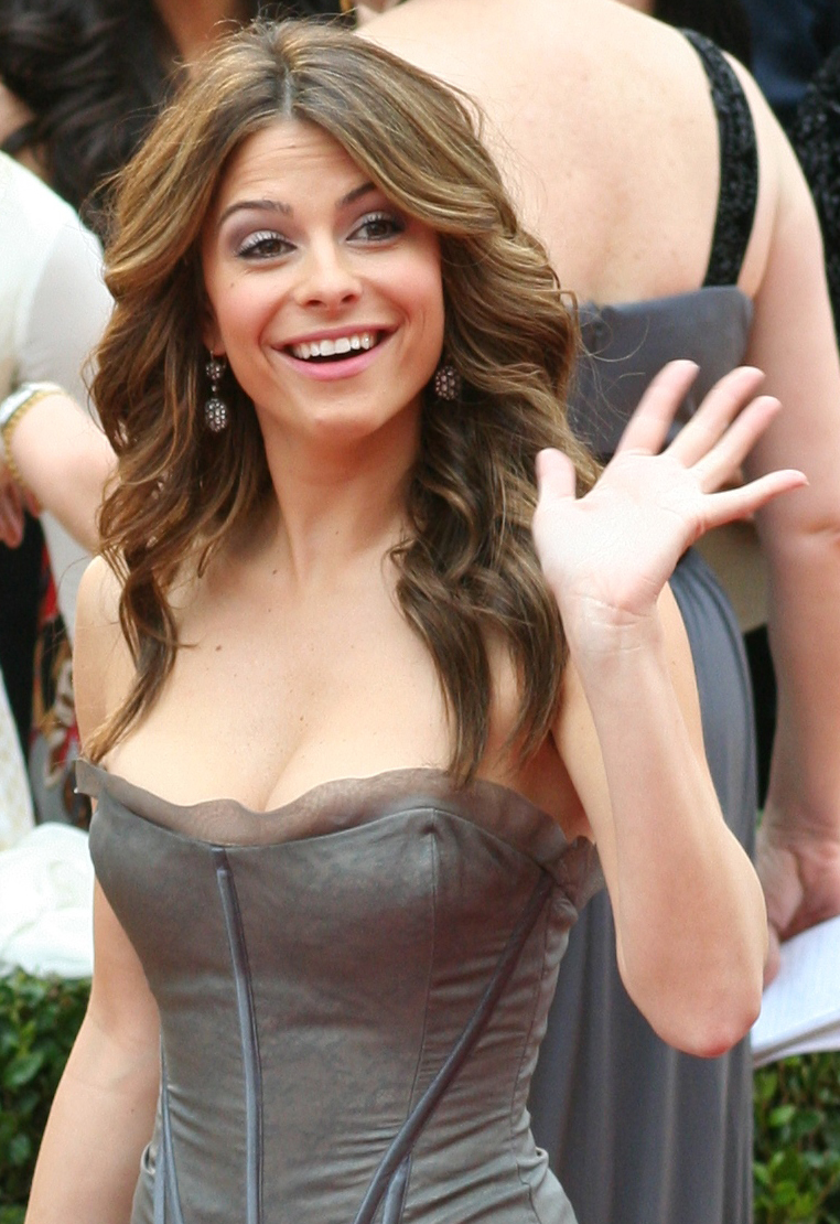 Maria Menounos at the 81st Academy Awards